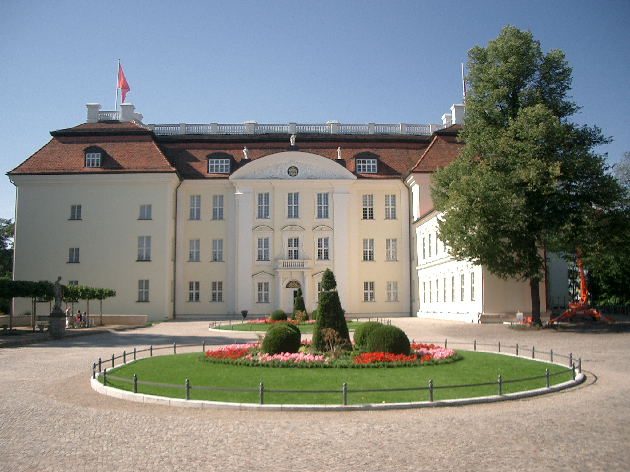 Schloss Köpenick - view from castle courtyard